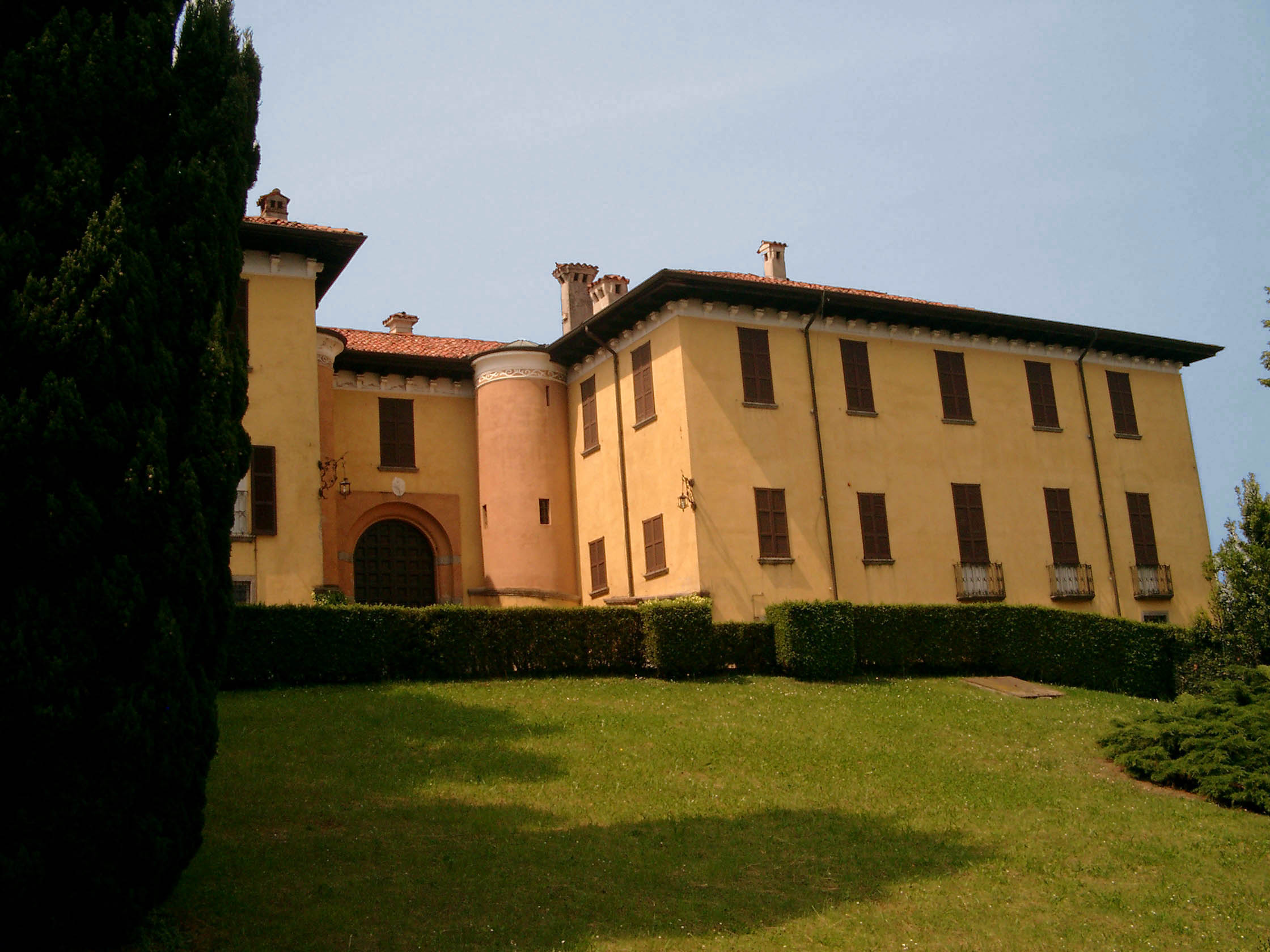 Villa La Vescogna, Lecco, Italy